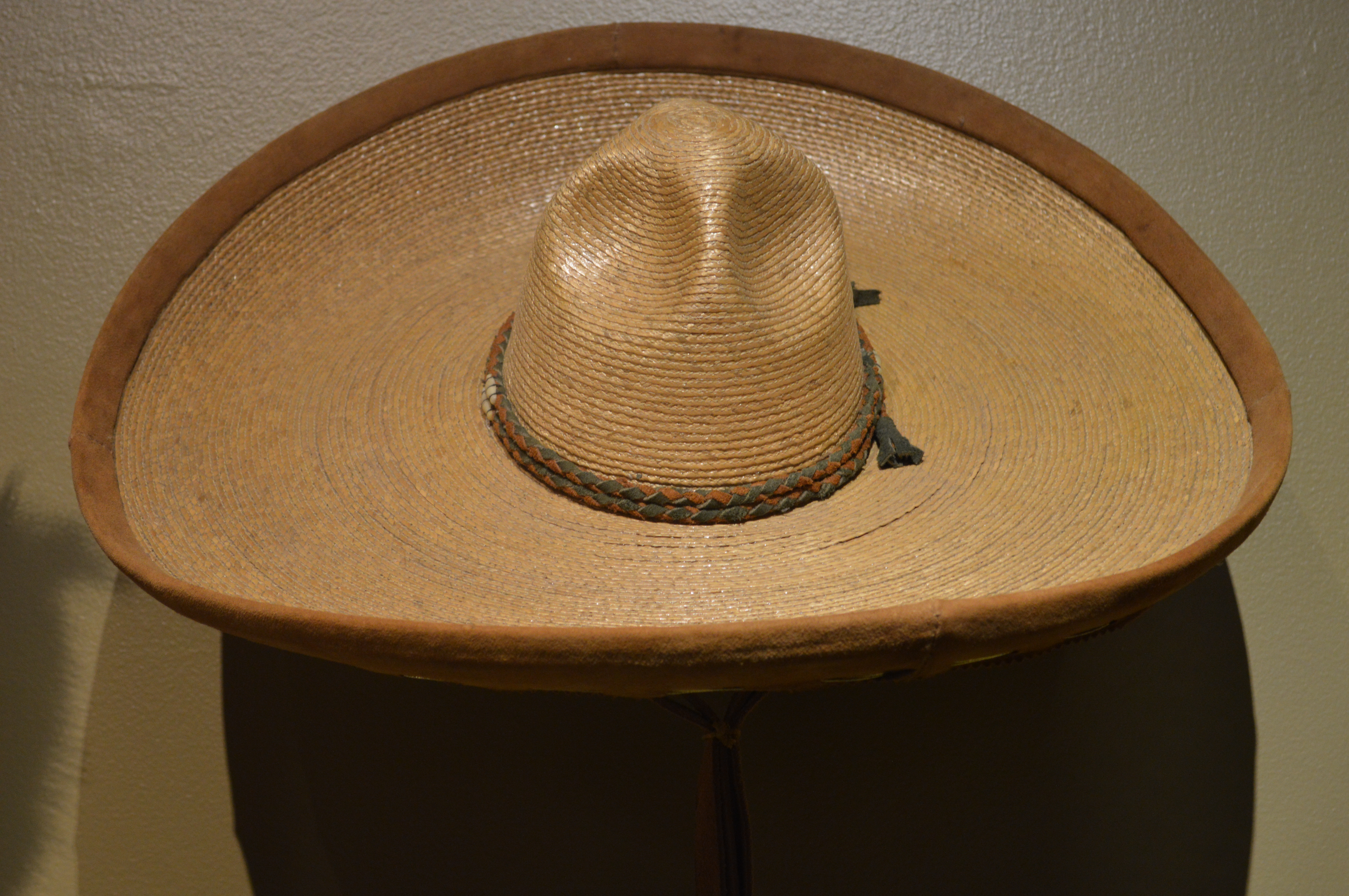 Charro sombrero from Zacatecas at the El Norte, su materia, su artesania at the Museo de Arte Popular in Mexico City